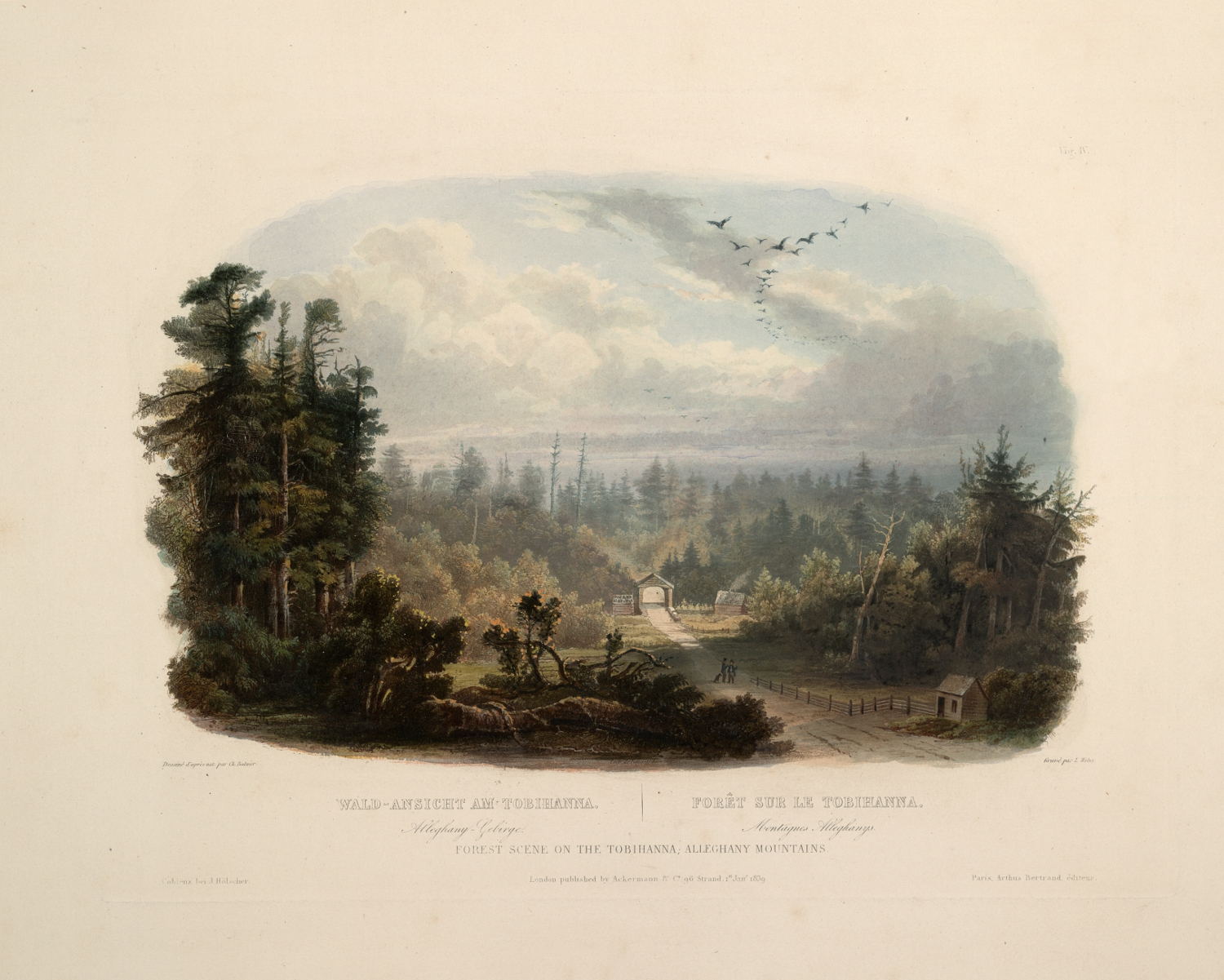 Aquatint by Karl Bodmer (1809 - 1893)